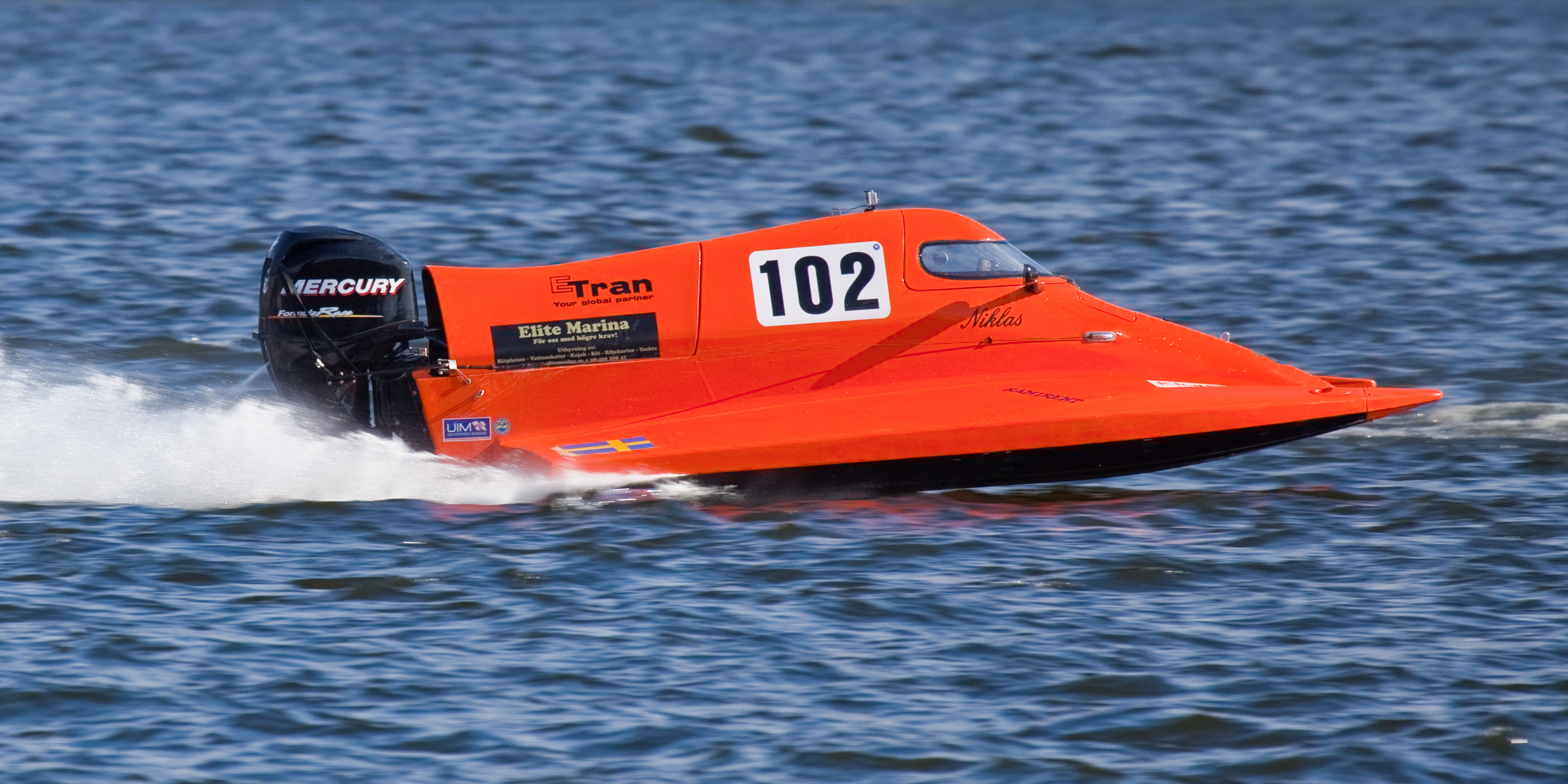 World and European F2 & F4 Championships at Riddarfjärden Stockholm June 2012